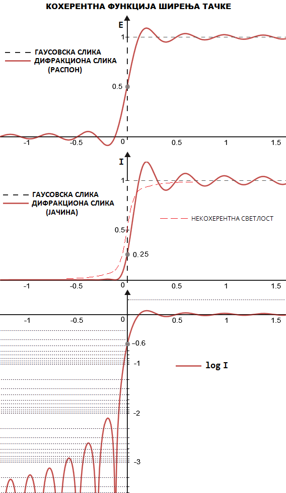 КОХЕРЕНТНА ФУНКЦИЈА ШИРЕЊА ИВИЦЕ